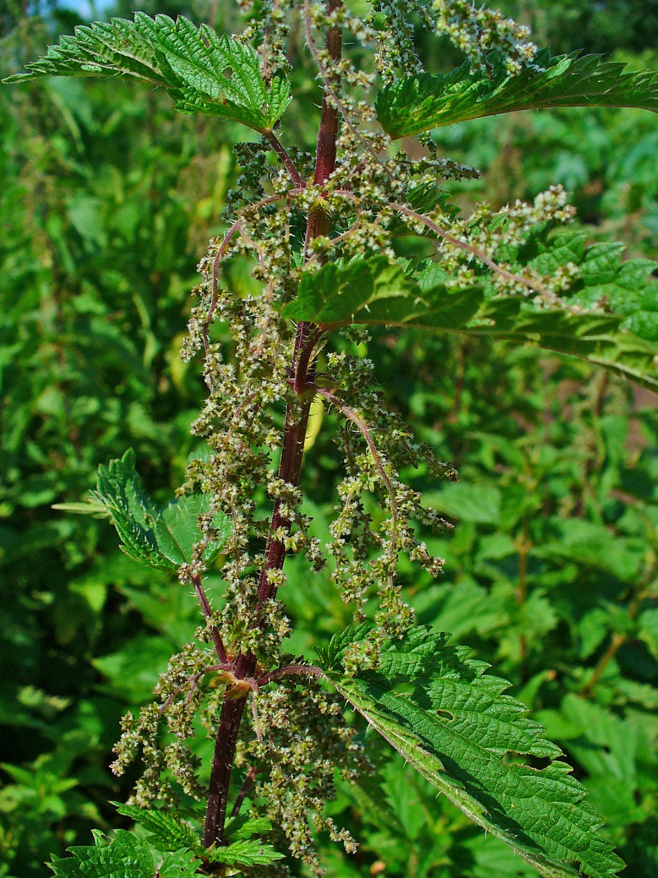 Urtica dioica, Urticaceae, Stinging Nettle, Common Nettle, inflorescences. Karlsruhe, Germany.